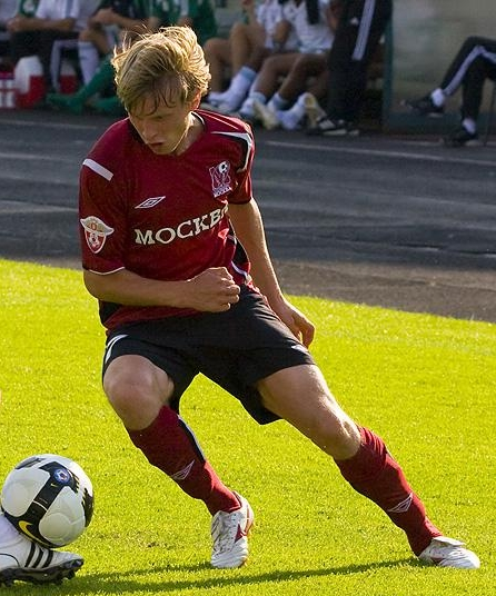 Aleksandr Stavpets in action for FC Moscow